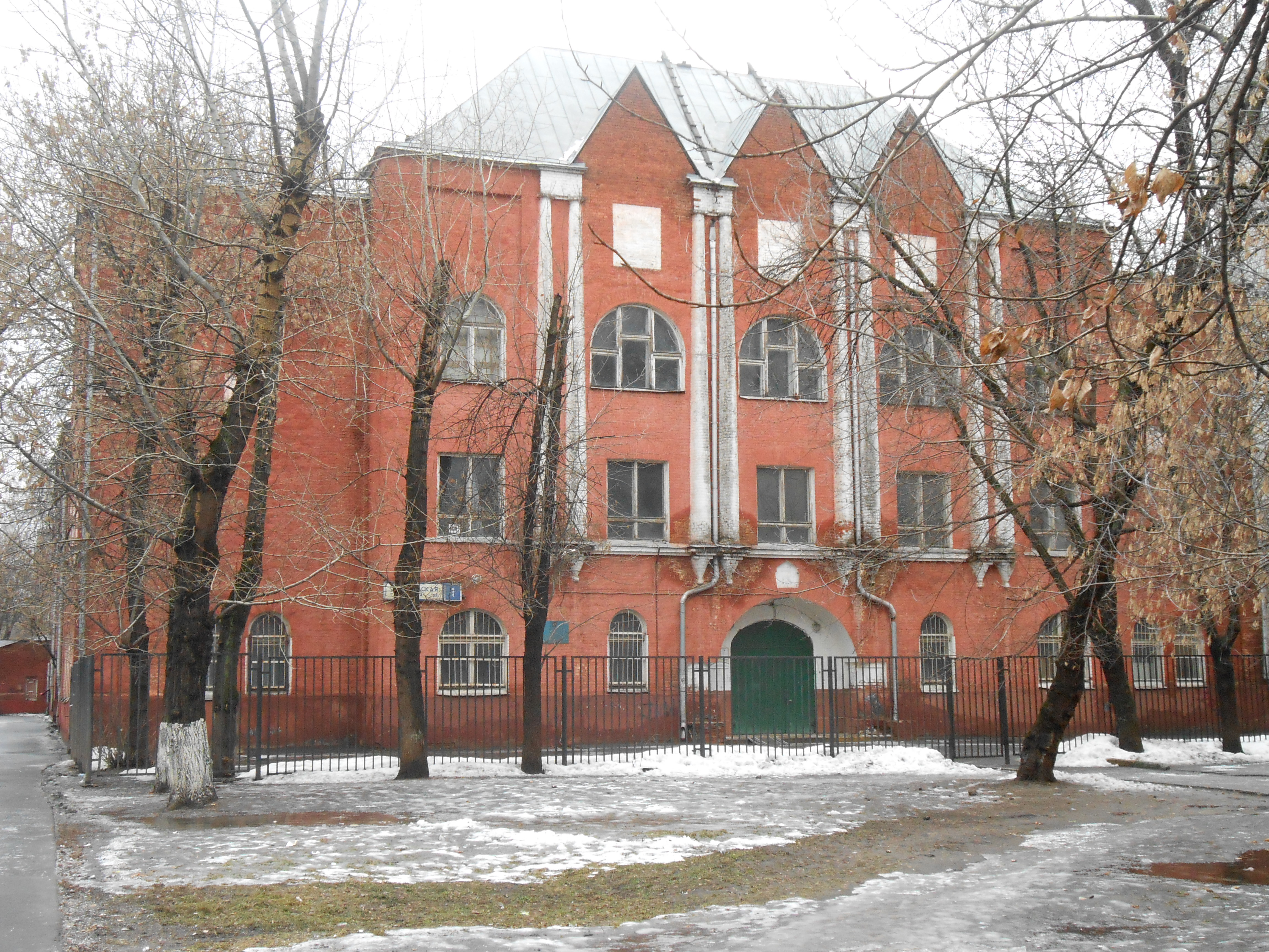 . Рогожское